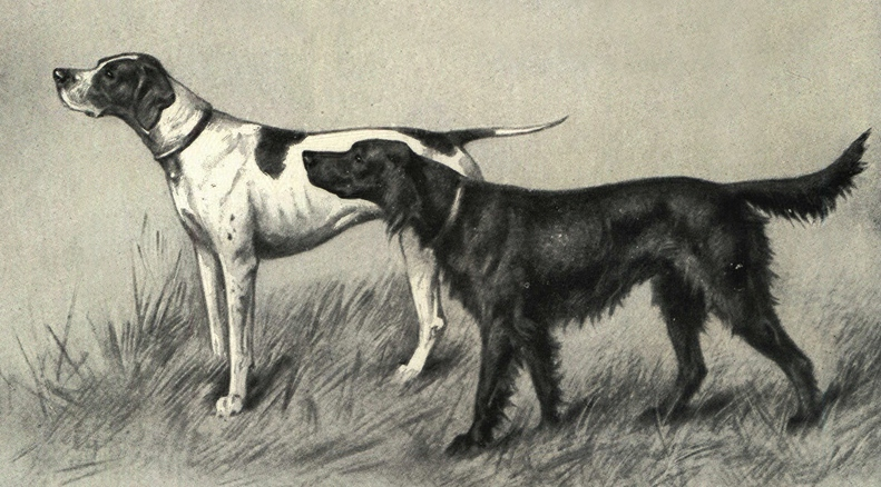 English Pointer & Irish Setter